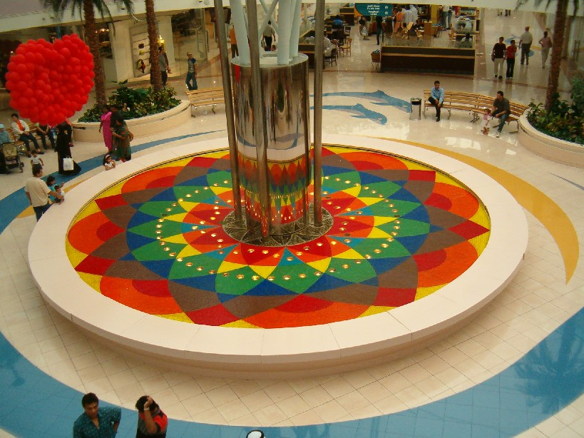 Steam Fountain, Marina Mall, Abu Dhabi.